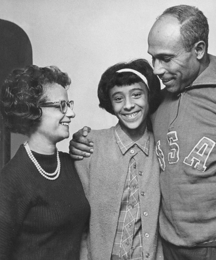 1967 Olympic Long Jumper Jerome Biffle With Wife & Daughter Press Photo